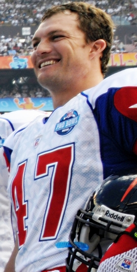 HONOLULU (Feb. 10, 2008) Adm. Timothy J. Keating, commander of U.S. Pacific Command, joins the 2008 NFL Pro Bowl players and officials at mid-field for the coin toss during the 2008 Pro Bowl game at Aloha Stadium. U.S. Navy photo by Mass Communication Specialist 1st Class James E. Foehl (Released)